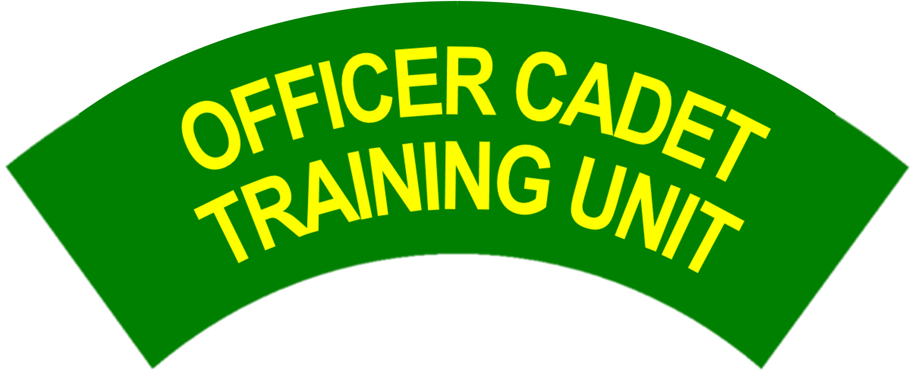 curved green tape with the writing Officer Cadet Training Unit in yellow